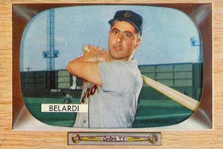 1955 Bowman baseball card of Wayne Belardi of the Detroit Tigers #36. PD-not-renewed.